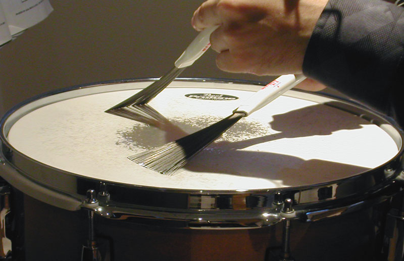 A drummer playing the brushes on a snare drum.